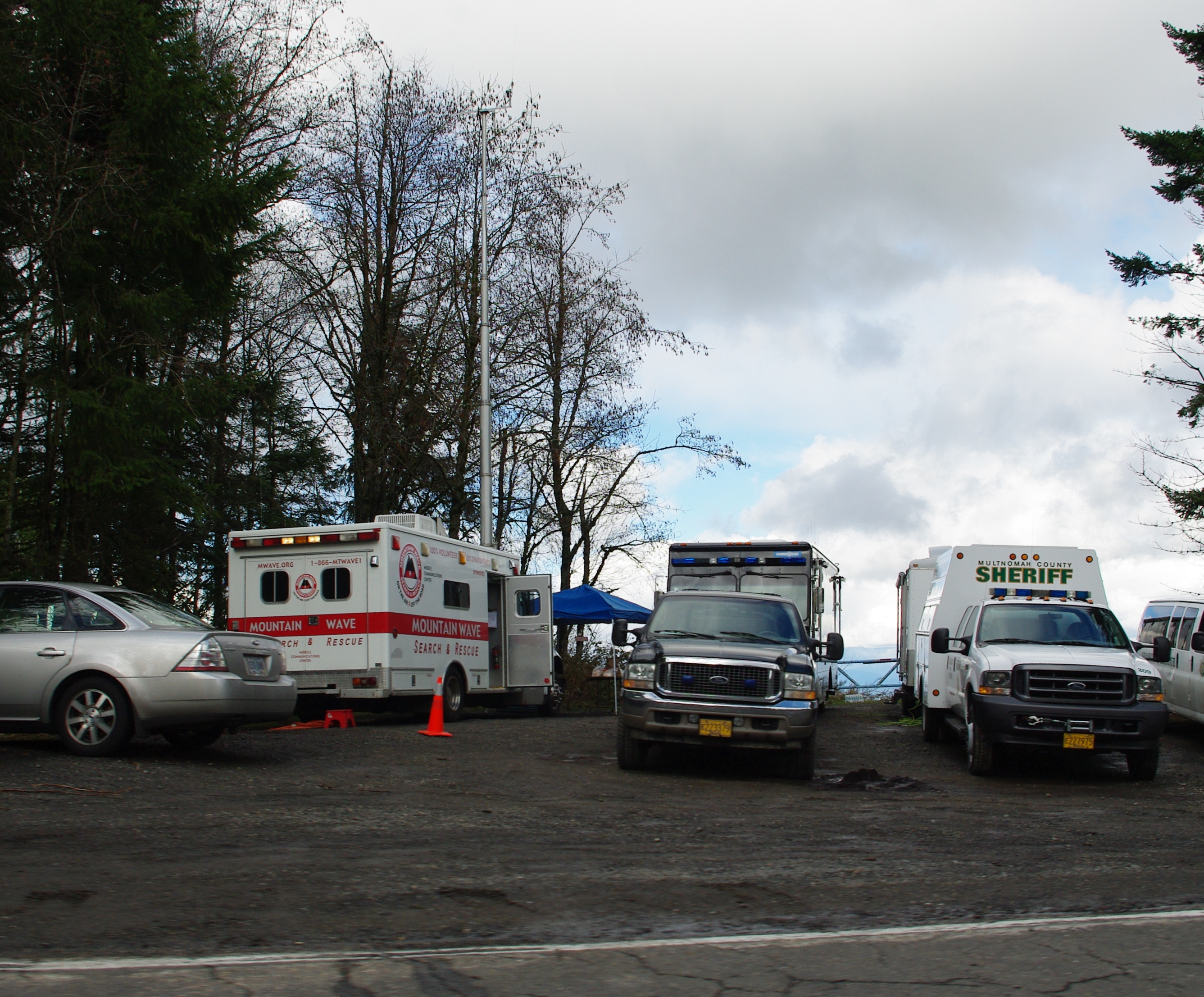 Search and rescue vehicles parked along Skyline Boulevard in unincorporated Multnomah County west of Cornelius Pass Road, near Moreland Road on March 26, 2011. Search crews were looking along the road and Dixie Mountain Road for Kyron Horman.